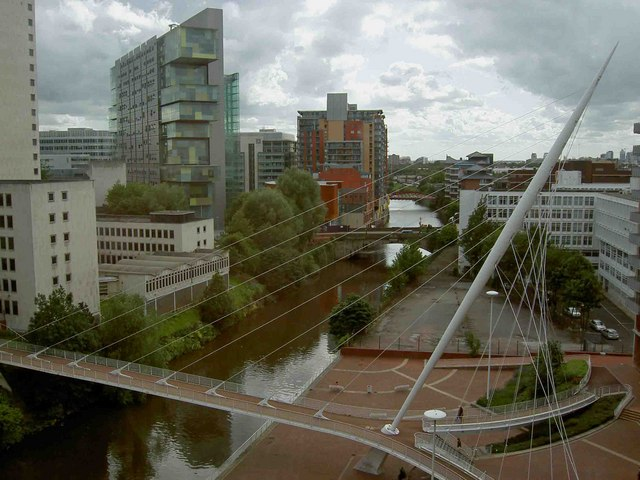 Chapel Wharf bridge Manchester Crossing the River Irwell from the Lowry Hotel.